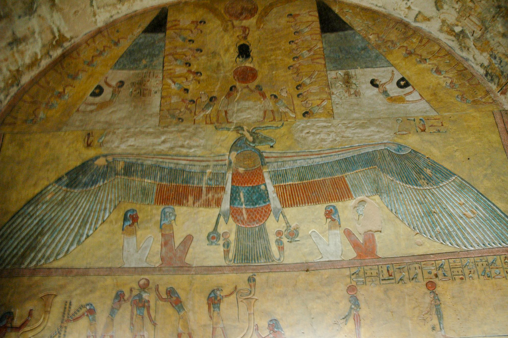 View of KV14--Tomb of Setnakht. (NOT Ramesses III as the flickr source states)